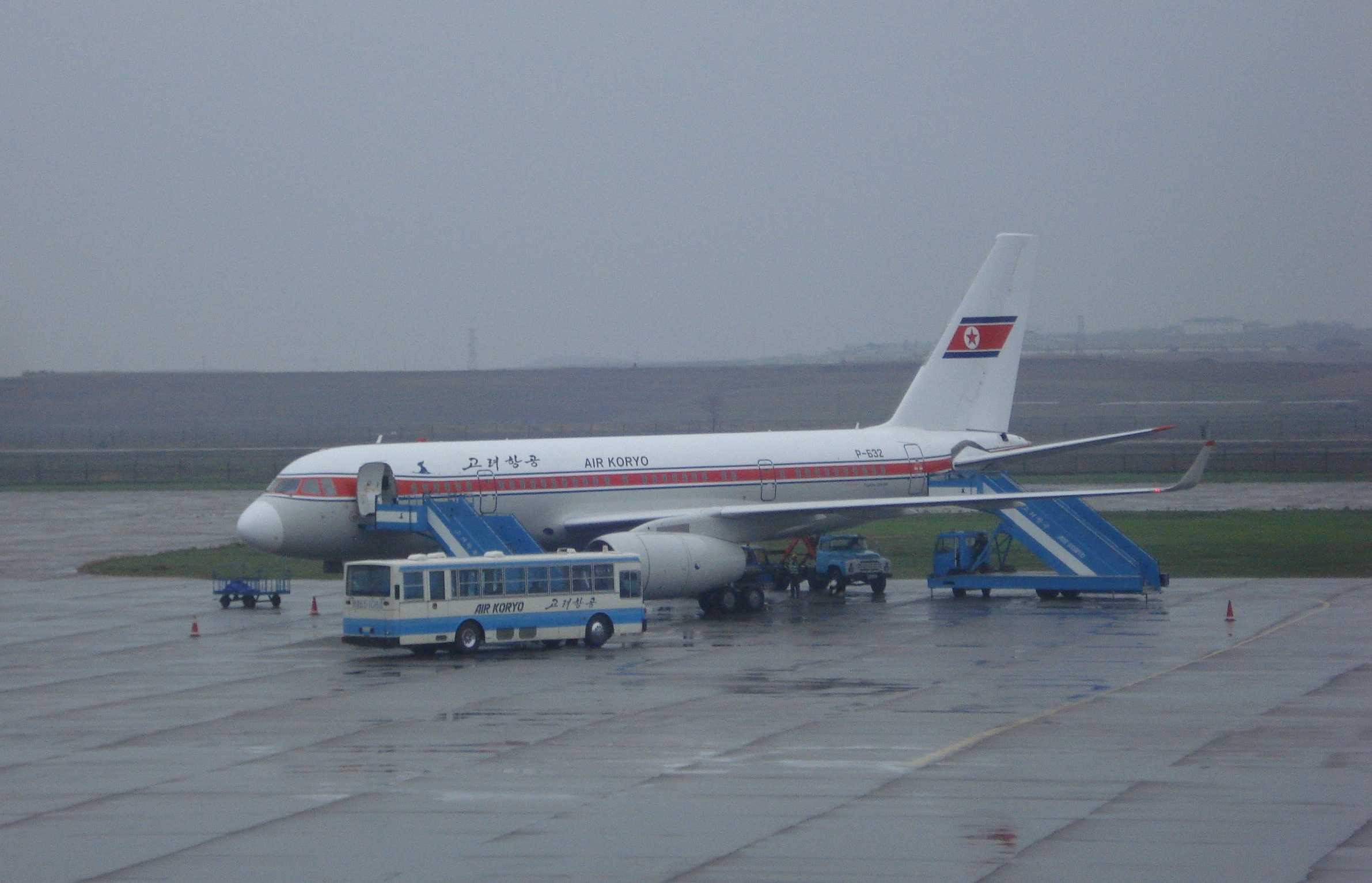 Air Koryo Tu-204-300 at Pyongyang Airport, DPR Korea.